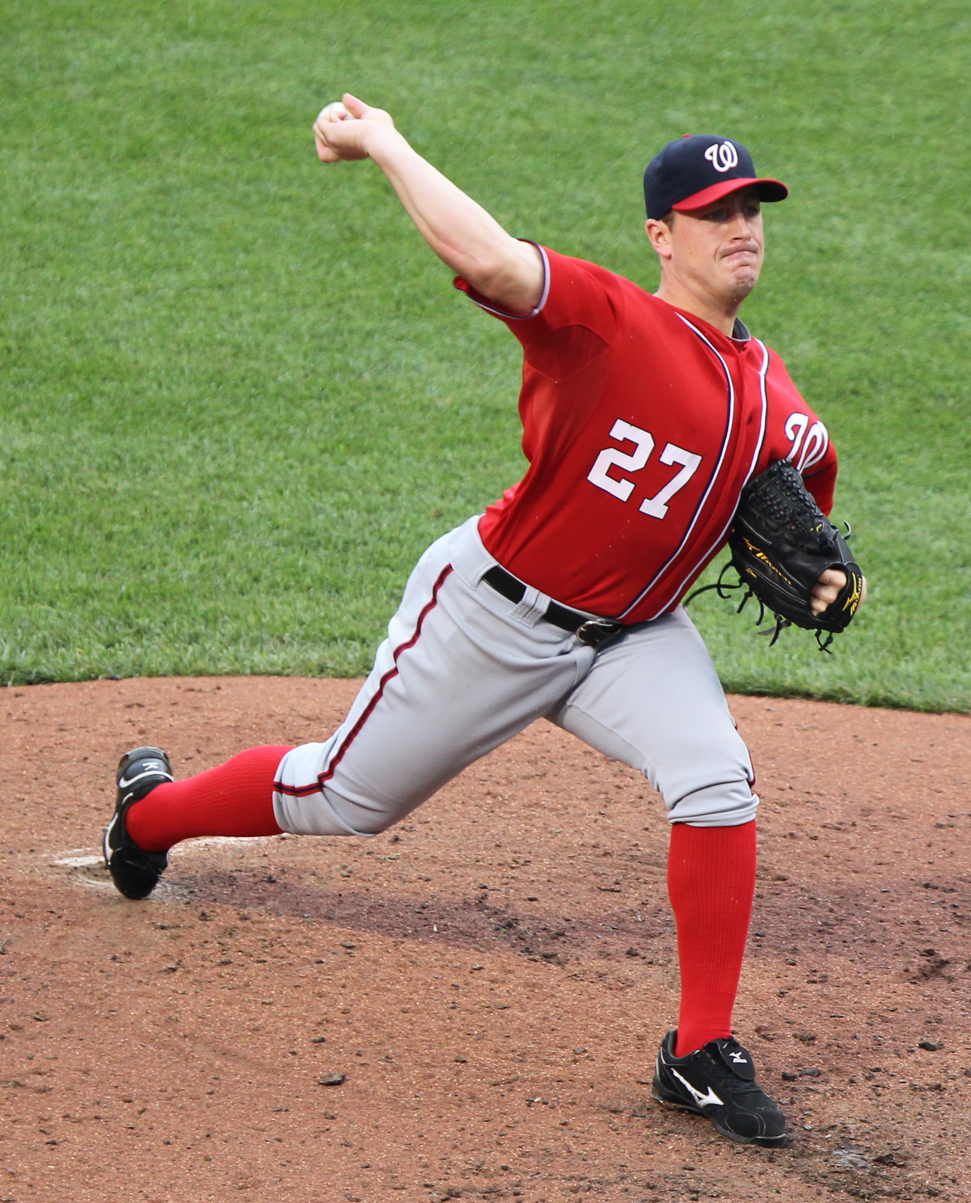 Washington Nationals at Baltimore Orioles May 22, 2011.